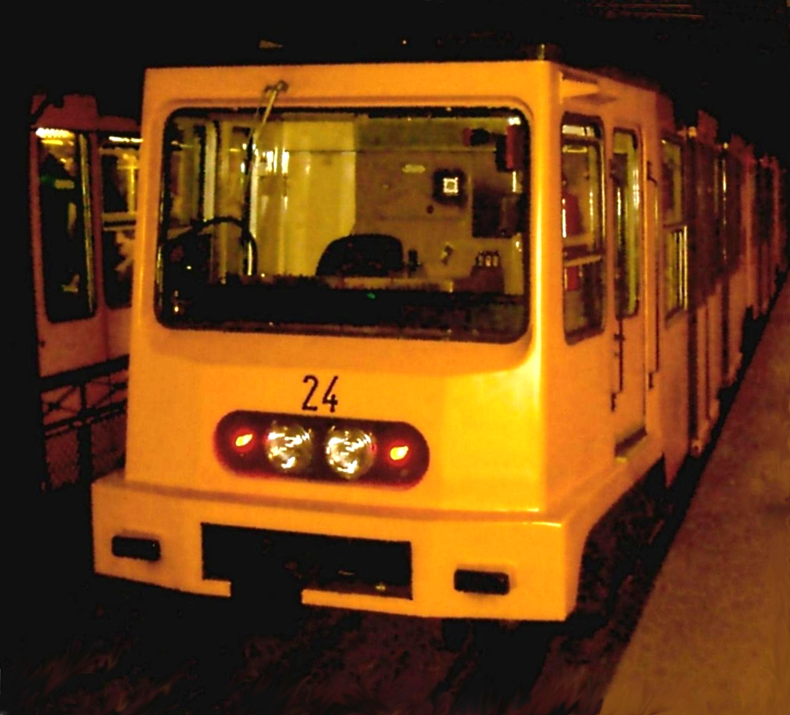 metro line